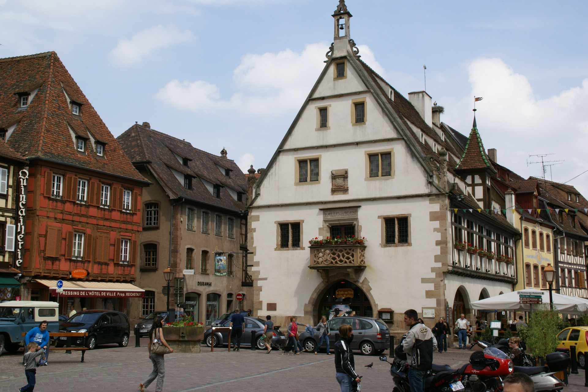 Halle aux Blés (Wheat Hall) at Place du Marché (Main Square) in Obernai, France